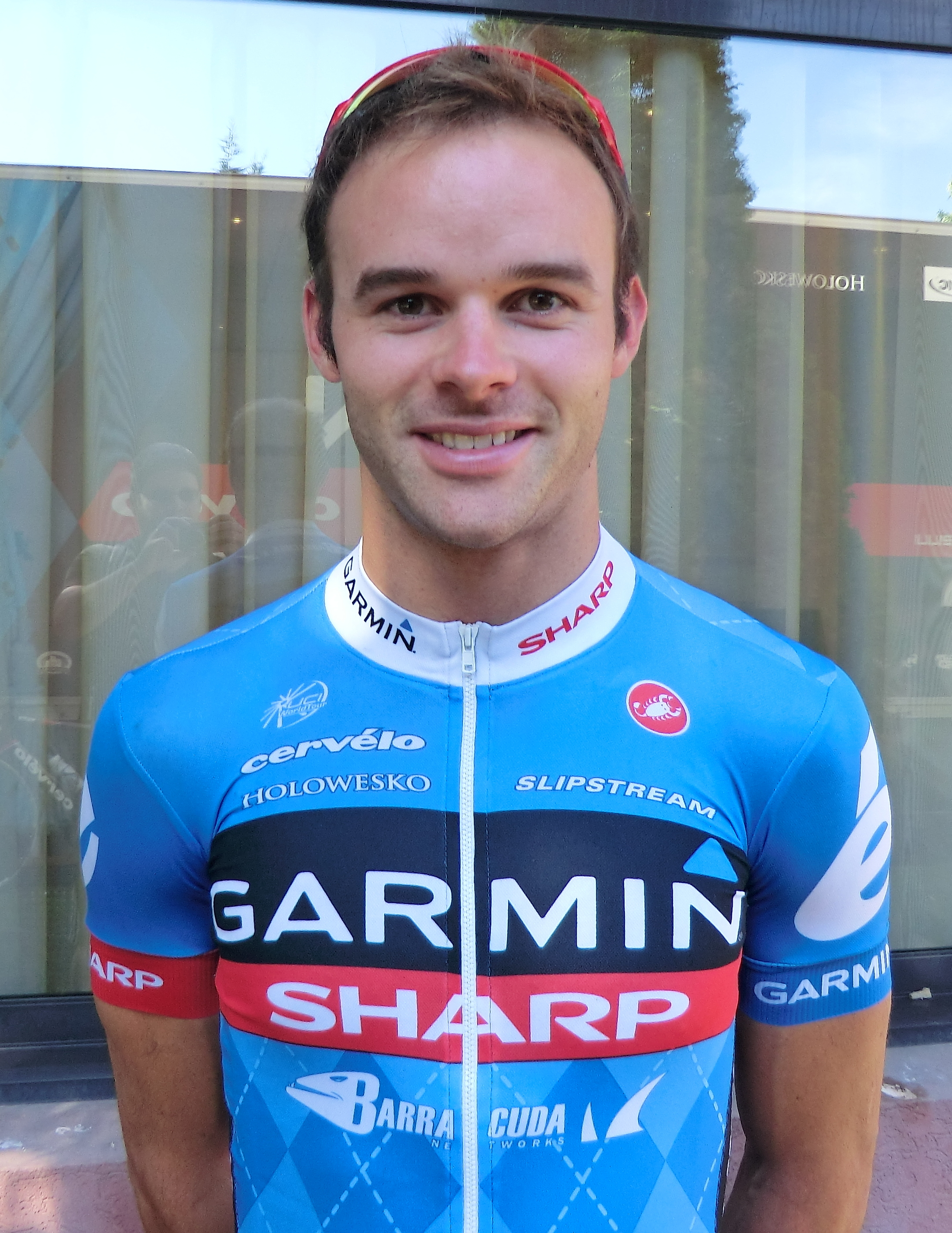 Steele Von Hoff (asutralian cyclist). Morning of Prologue time trial of tour de l'Ain 2013 at the Hôtel Lyon-Est in Saint-Maurice-de-Beynost.